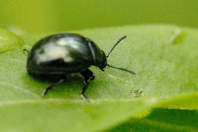 Scirtes hemisphaericus from Commanster, Belgian High Ardennes .